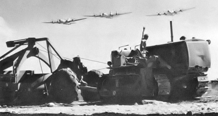 US Navy SeaBees view USAAC B-29 Superfortresses arriving at uncompleted North Field, Tinian, 1944